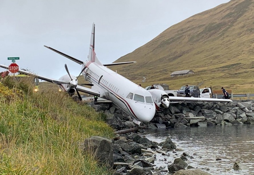 A Saab 2000, registered N686PA, was substantially damaged when it experienced a runway excursion after landing on runway 13 at Unalaska Airport, Alaska.